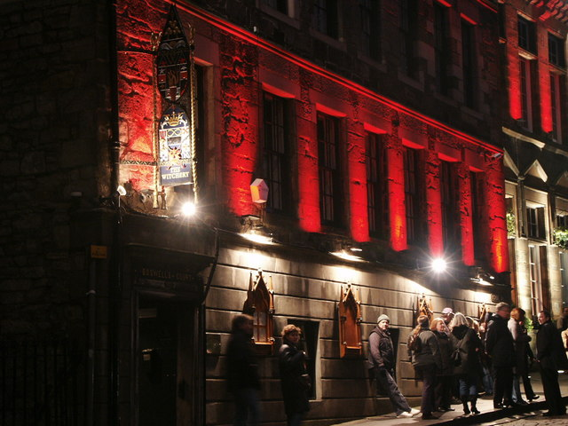 The Witchery Restaurant by the Castle.